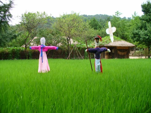 Traditional scarecrows at the Korean Folk Village